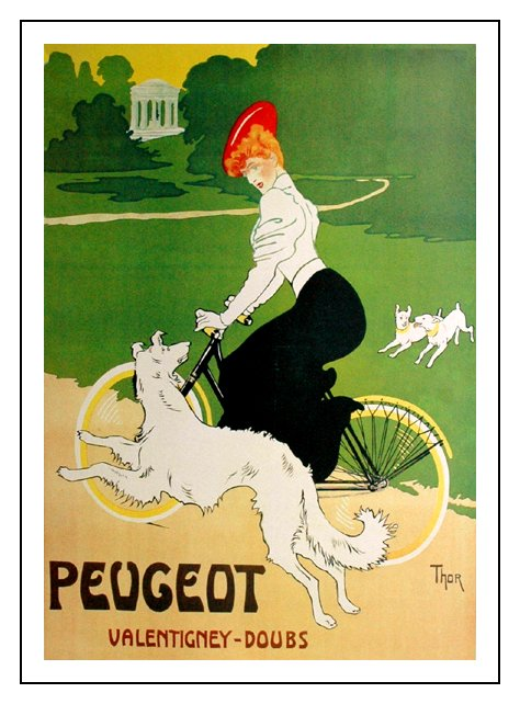 Poster Peugeot by Walter Thor